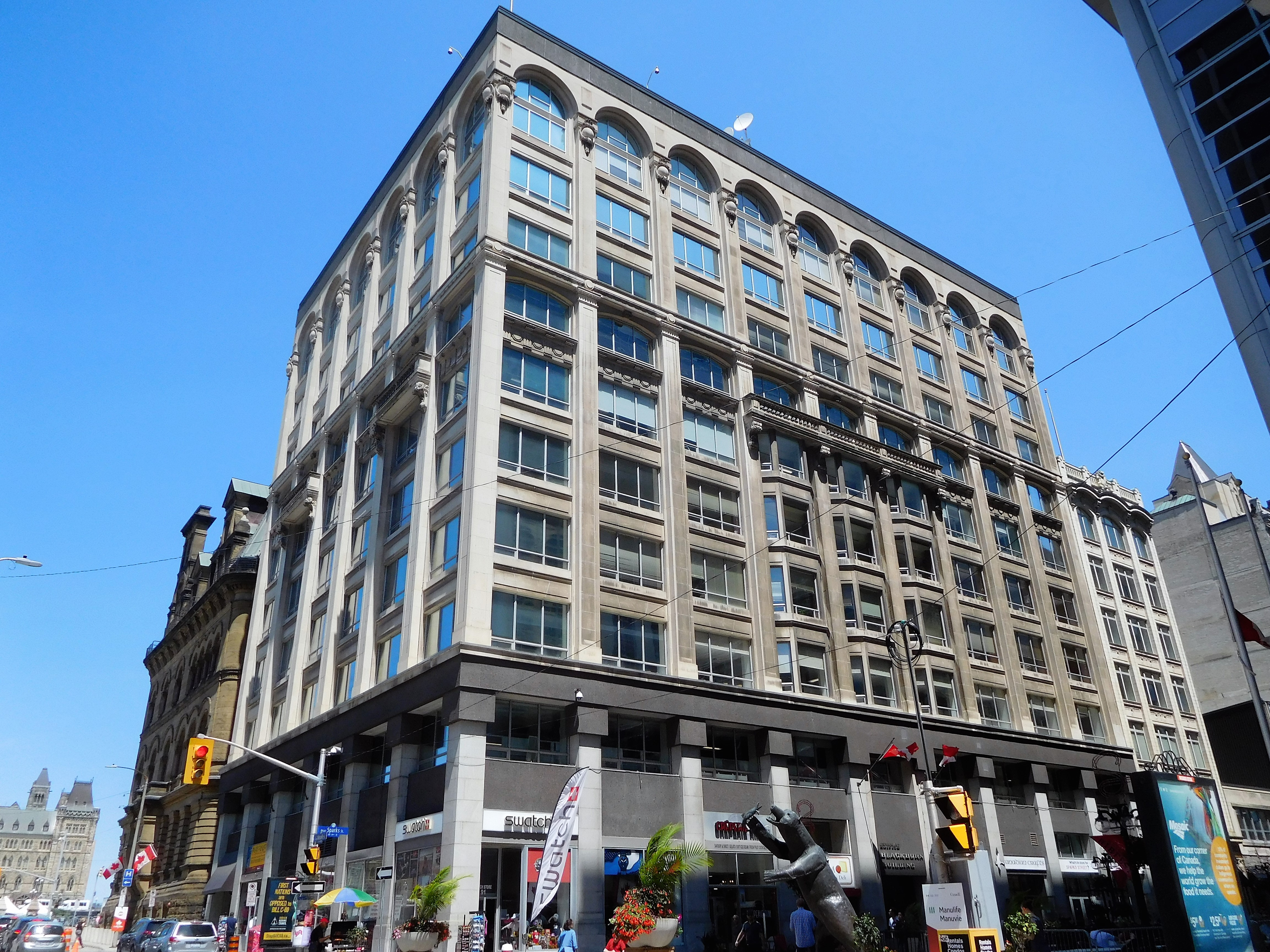 Blackburn Building, 83 Sparks Street (at Metcalfe), Ottawa